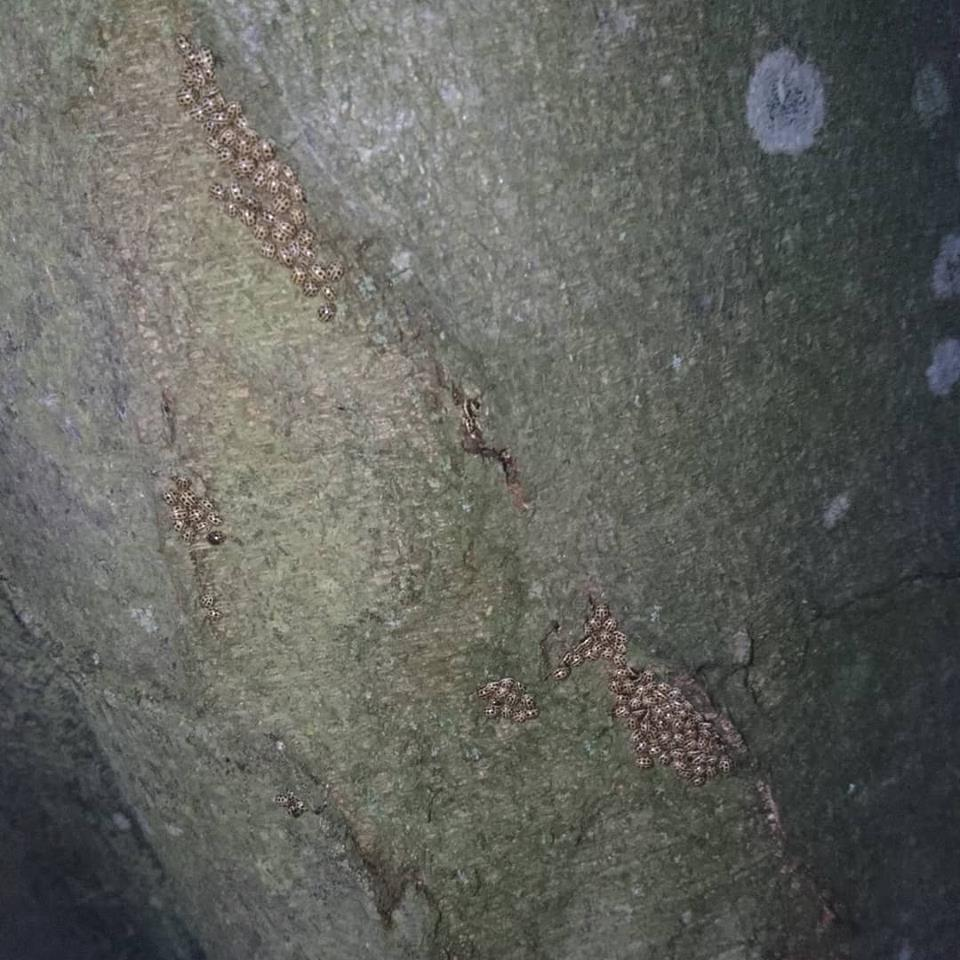 A group of Tytthaspis sedecimpunctata ladybirds on a tree trunk, Wooburn Manor Park, 13/11/2018